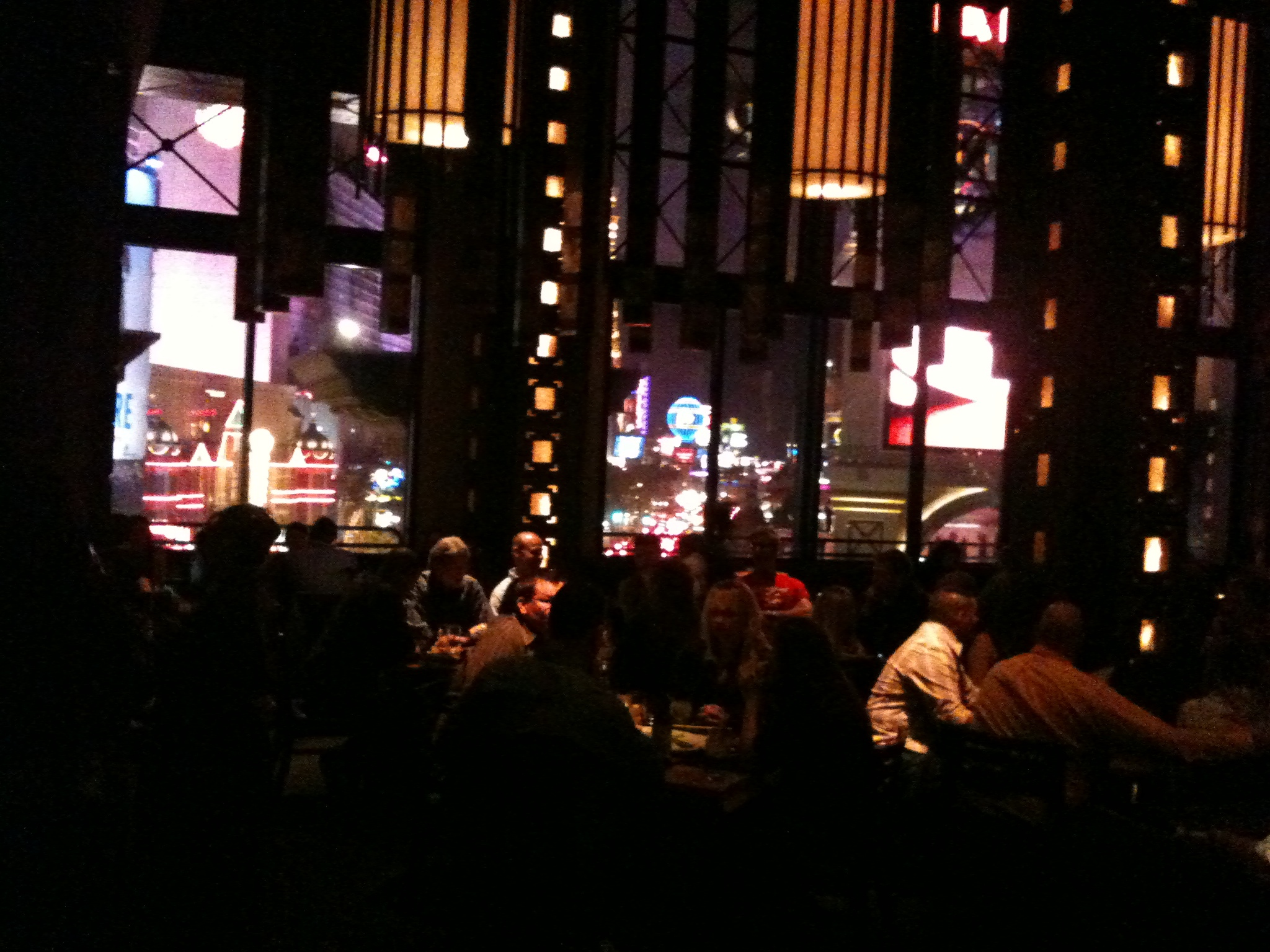 Sushi Roku in Las Vegas, Nevada